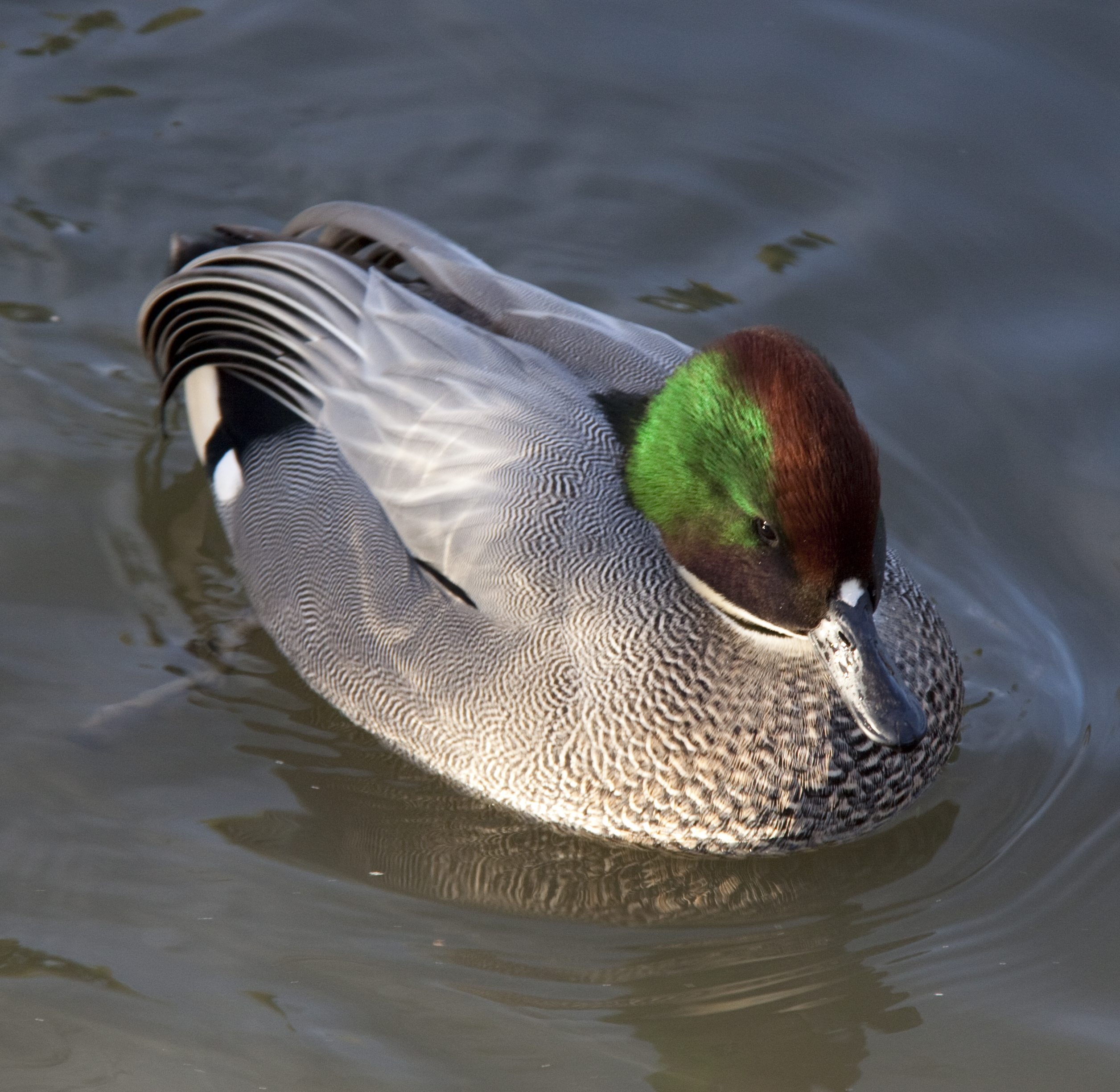 Falcated Duck 1